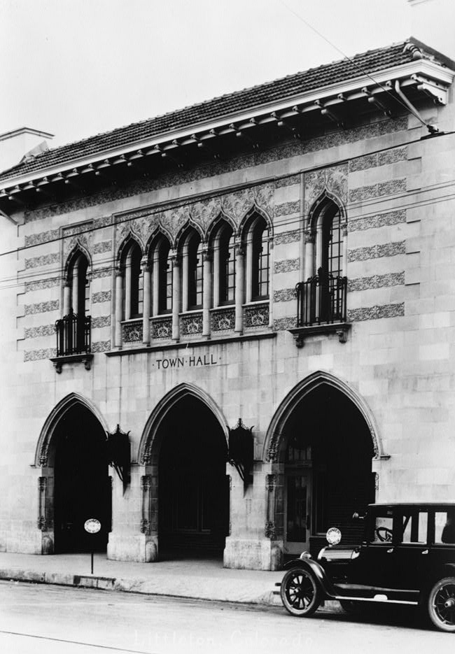 Littleton Town Hall, 2450 West Main Street, Littleton, Arapahoe County, CO Built 1920. Jacques Benedict (1879-1948), architect. Historic American Buildings Survey—HABS image.